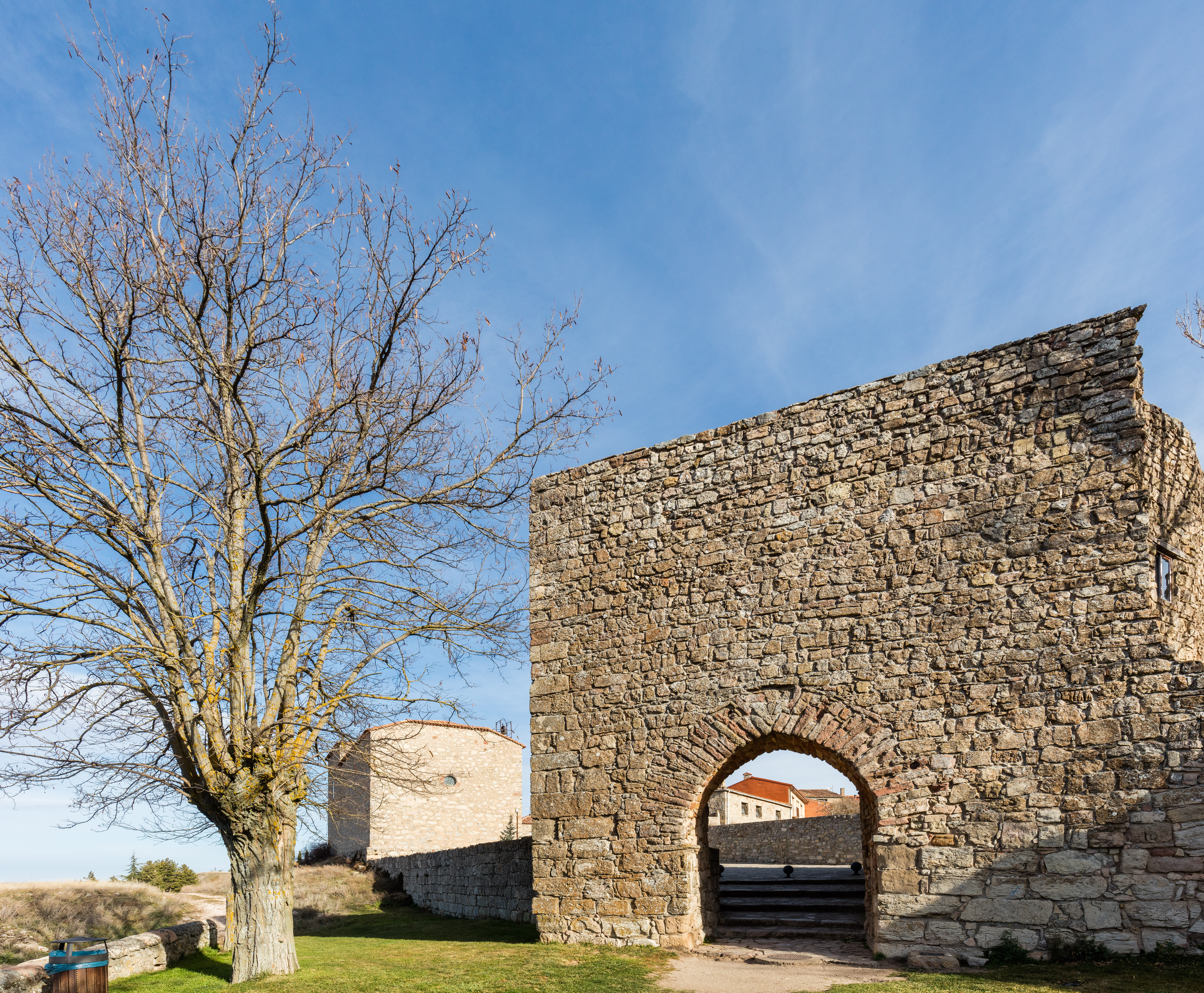 Arabic arch, Medinaceli, Soria, Spain